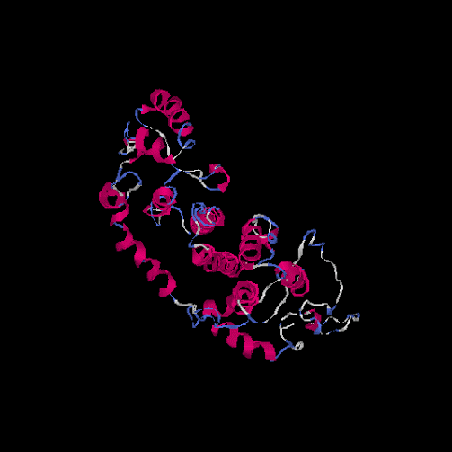 I-Tasser Module for C9orf91